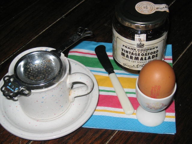 Photograph of breakfast ingredients taken on 30 September 2006